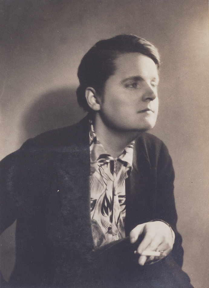 Photograph showing Esther Murphy Arthur smoking a cigarette. LCCN Permalink Additional Metadata Formats MARCXML Record MODS Record Dublin Core Record